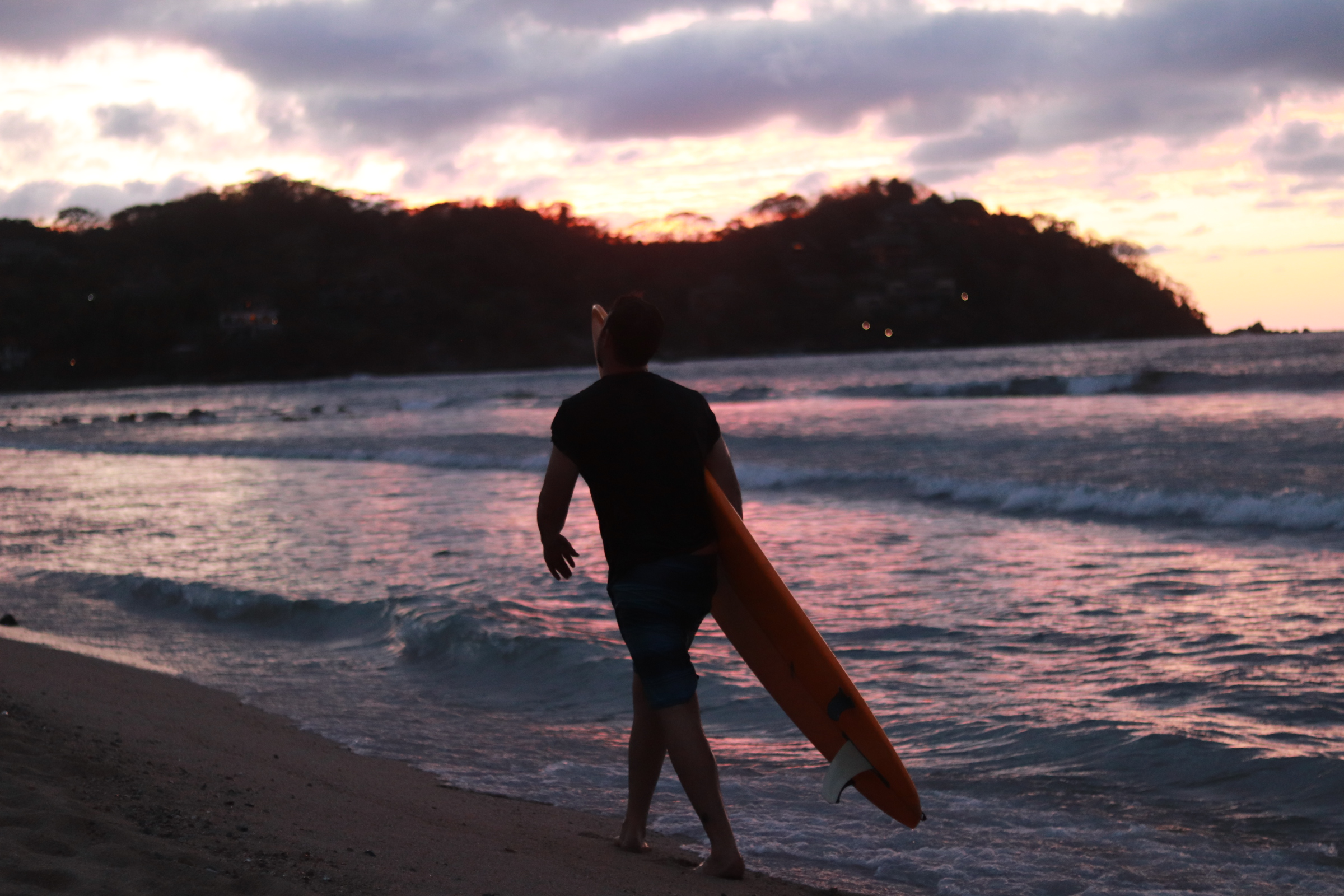 Fotografía que forma parte del proyecto fotográfico "surfos" En el cual consta de una serie de fotografías donde nos acercamos a la cultura surf en México del fotógrafo documentmental Gustavo Arroyo.